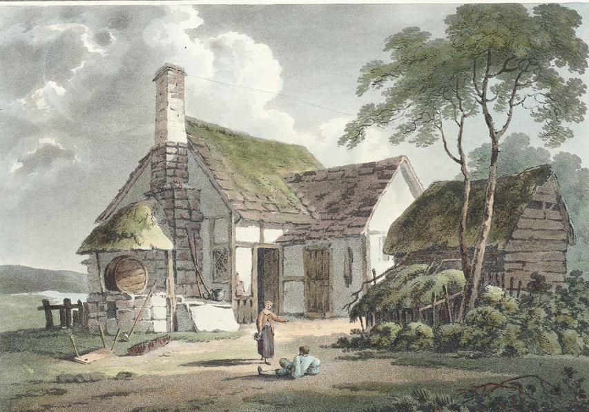 Cottage in the Montgomery Area 1813